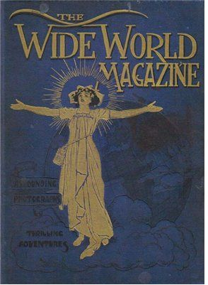 Cover of "The Wide World magazine", volume 2, 1898